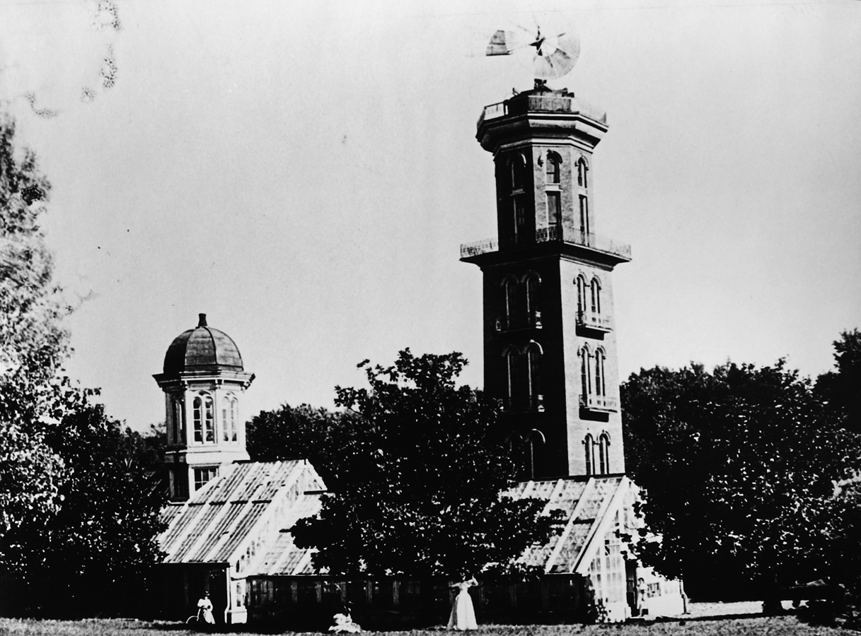 This is an image of the Belmont Tower dated near 1900. The structure was part of the original estate that included the Belmont Mansion. The tower and mansion are now part of the Belmont University campus in Nashville, Tennessee. Other information Ownership details for this image, and classification of the image as Public Domain is described on the following page, located on the official web site of Belmont University